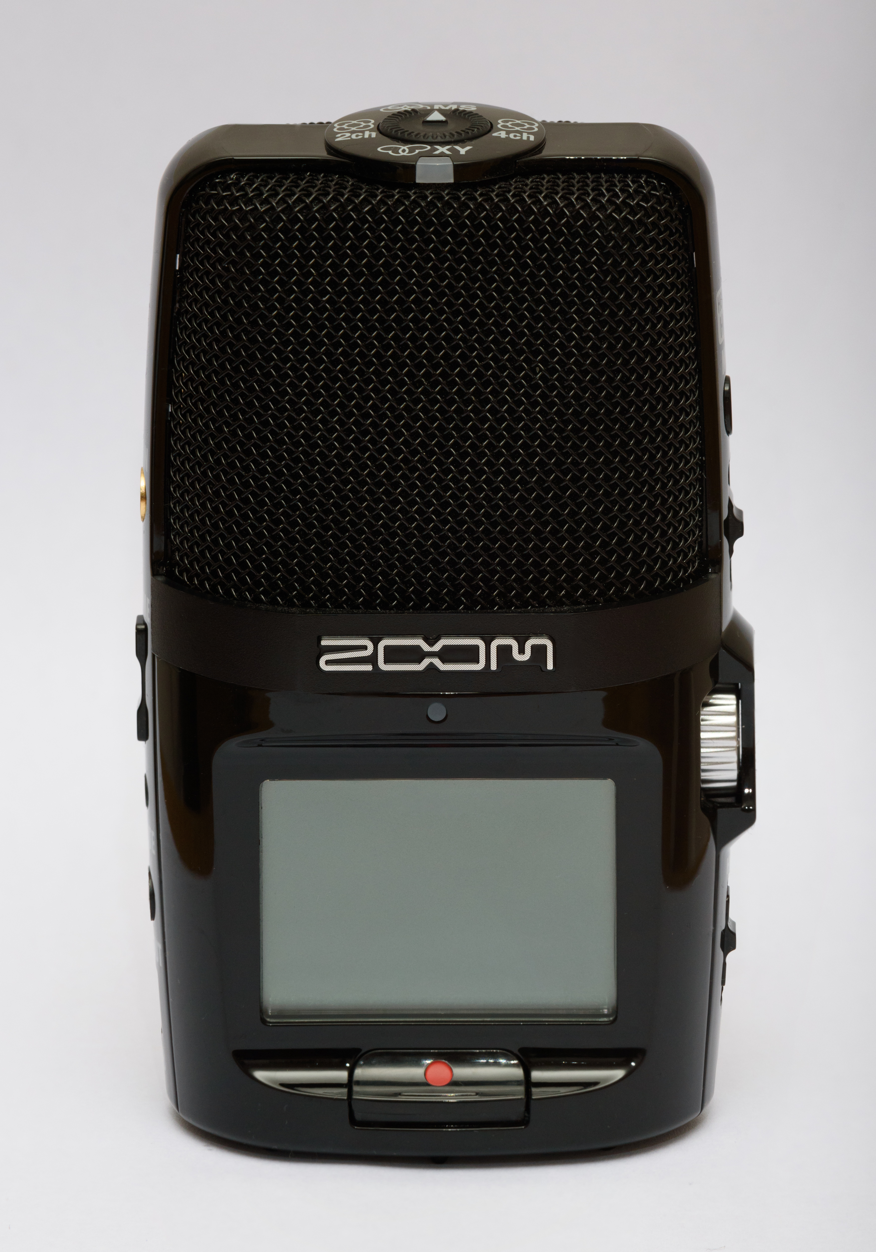 Three-frame focus stack of Zoom H2n Handy Recorder.